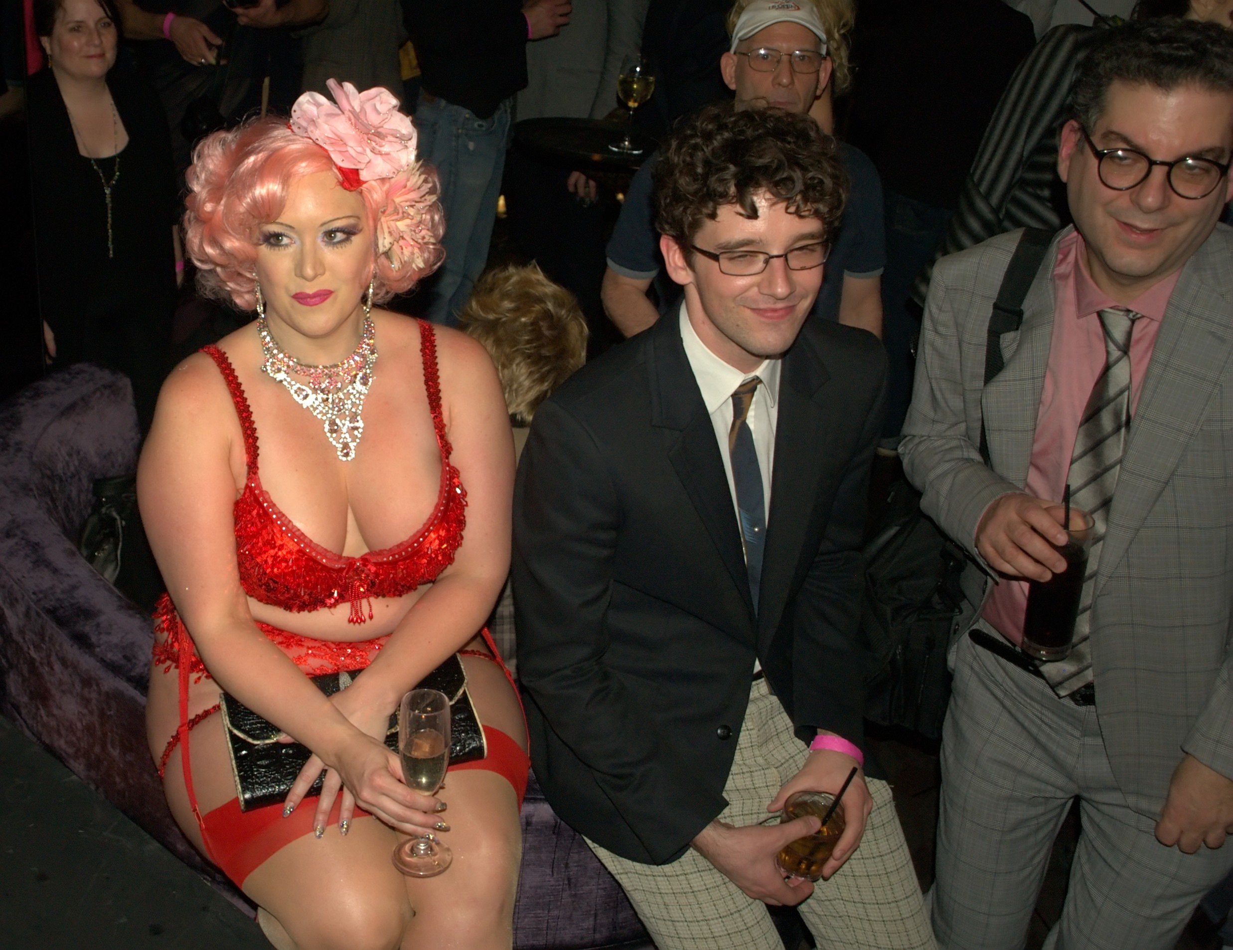 Miss Dirty Martini, Michael Urie and Michael Musto at the 25th Anniversary party of Musto writing for The Village Voice